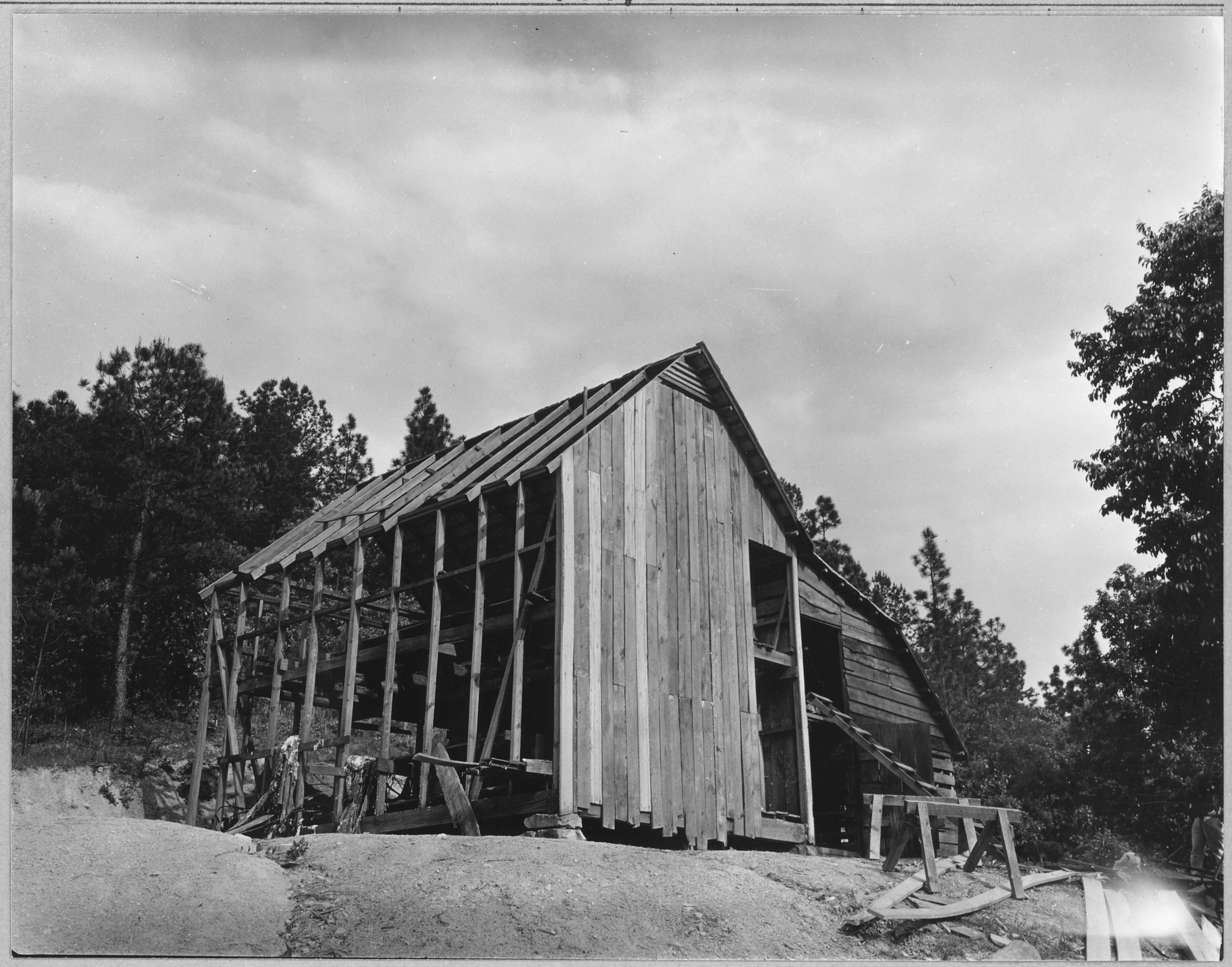 Scope and content: Full caption reads as follows: Coosa Valley, Alabama. Newly constructed barn on abandoned farm.